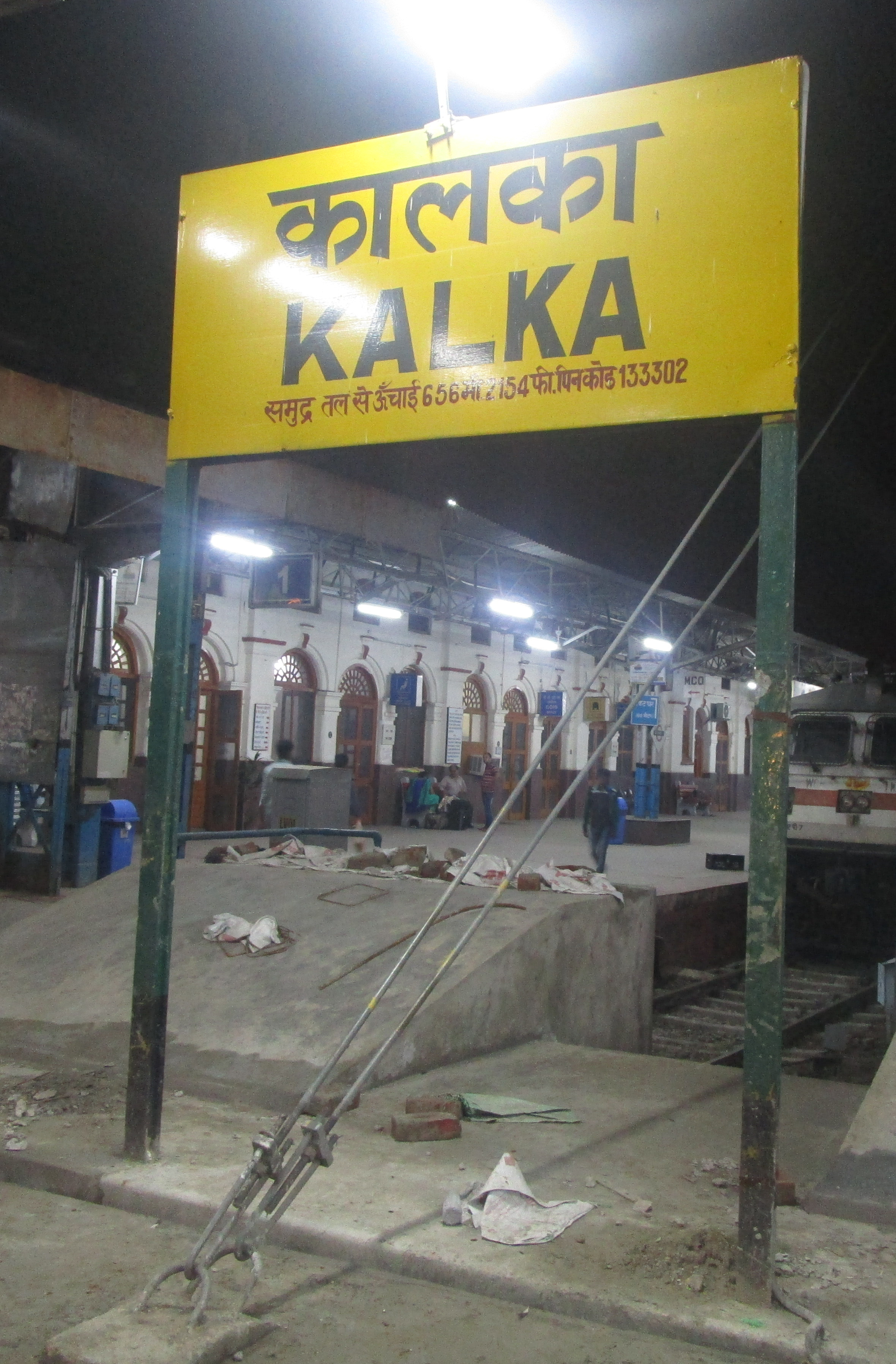 Kalka railway station nameplate